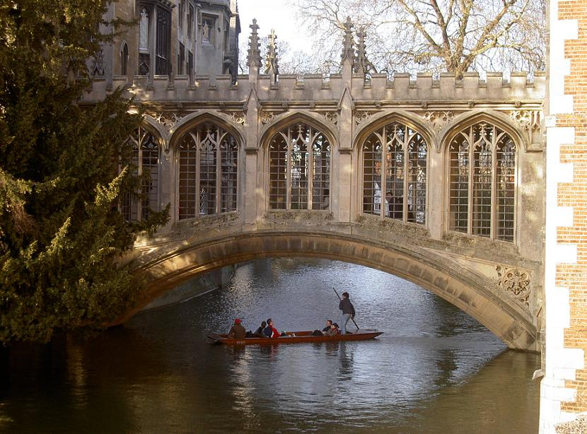 The Bridge of Sighs in Cambridge, joining the olds courts of St. Johns COllege to the new court across the river Cam.